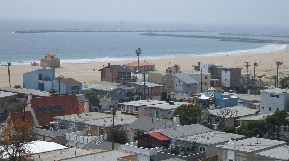 A view of Playa del Rey from one of the last hills before the beach.